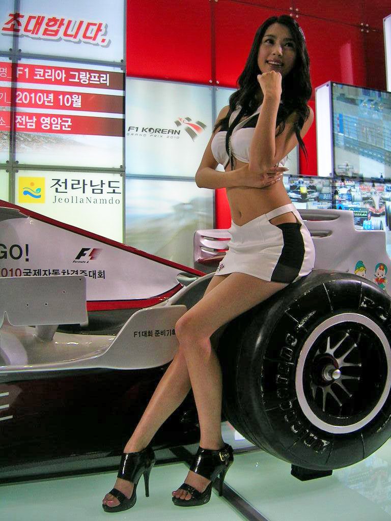 Ju Daha at the 2009 F1 & World Supercar Show in the Kim Daejung Convention Center (Kwangju, ROK)